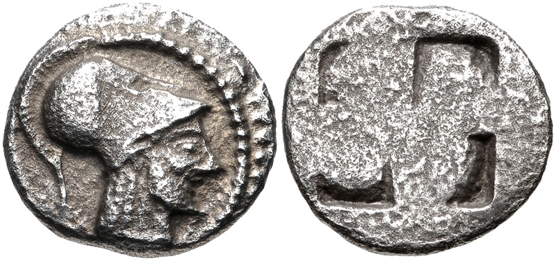 MACEDON, Aineia. Circa 510-480 BC